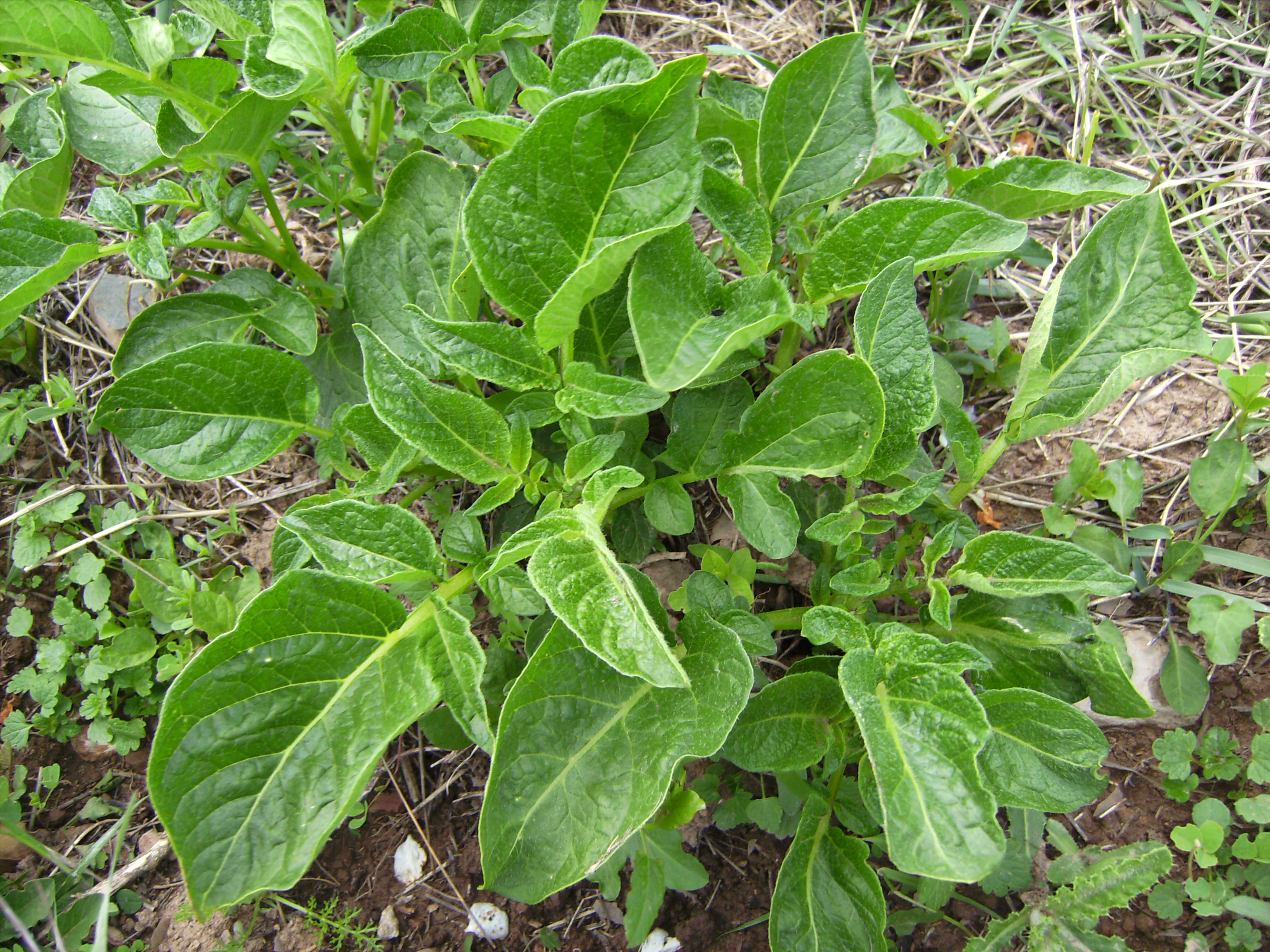 Potato plant cultivar Kennebec